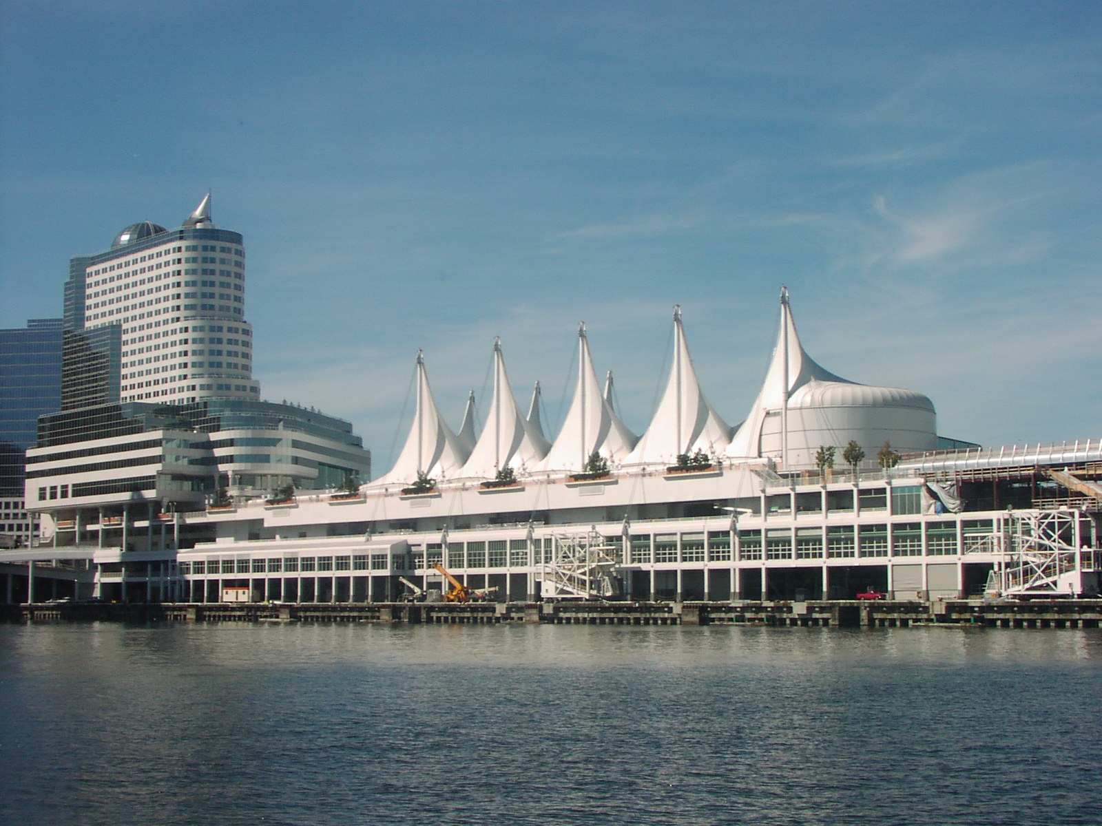 View of Canada Place from the water.